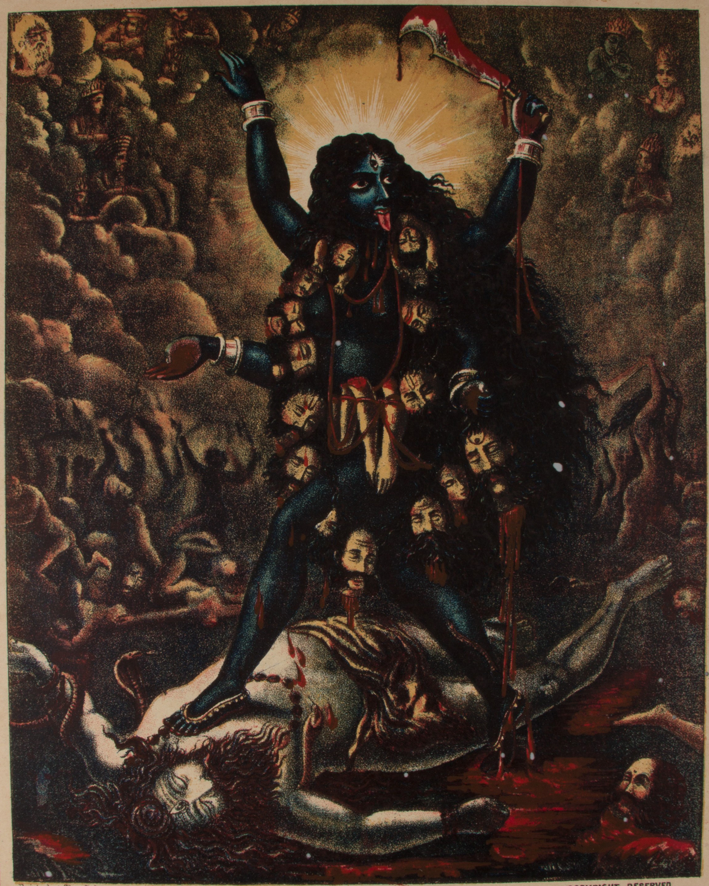 Kali Date: ca. 1885–95 Culture: India Medium: Lithograph Dimensions: Image: 12 × 9 1/2 in. (30.5 × 24.1 cm) Sheet: 16 5/8 × 12 7/8 in. (42.2 × 32.7 cm) Classification: Prints Credit Line: Purchase, Anonymous Gift, 2013 Accession Number: 2013.3 This artwork is not on display